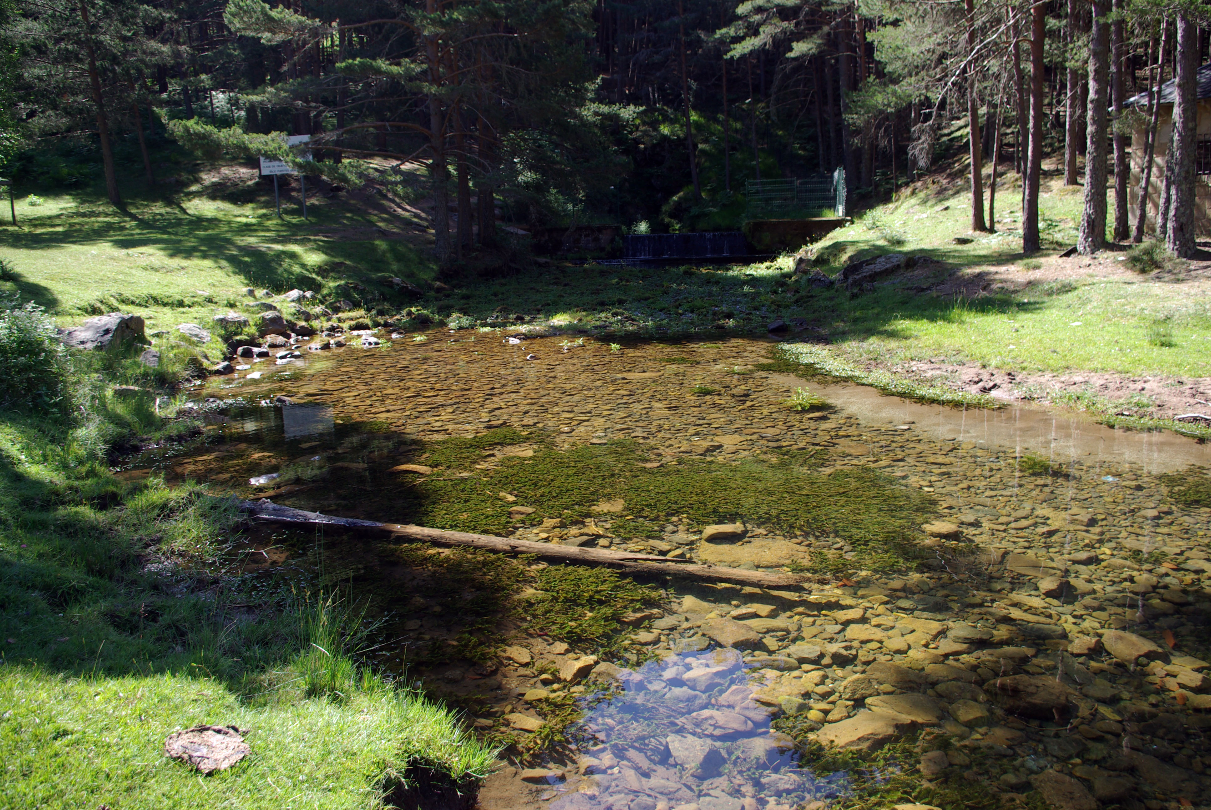 Fuente Sanza: River Arlanza source. Northern Quintanar de la Sierra, Burgos (Spain)